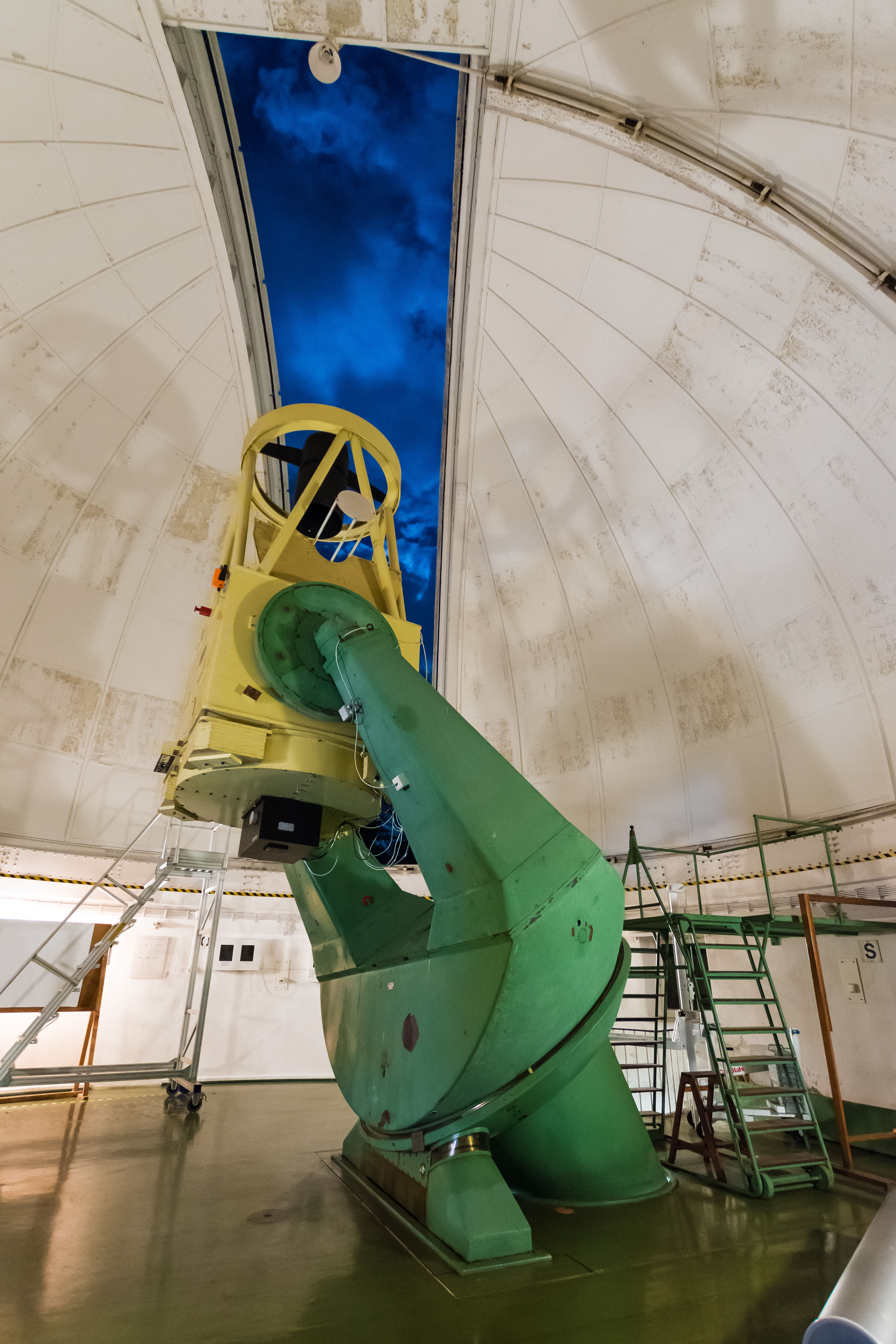 Oskar Lühning Telescope, a Ritchey–Chrétien telescope at the Hamburg Observatory. With an aperture of 1.2 m and a focal length of 15.6 m, it is the observatory's largest telescope and indeed one of the largest in all of Germany. It is also the observatory's youngest telescope, having been built in 1975; however, the mount and the dome building date from 1954.